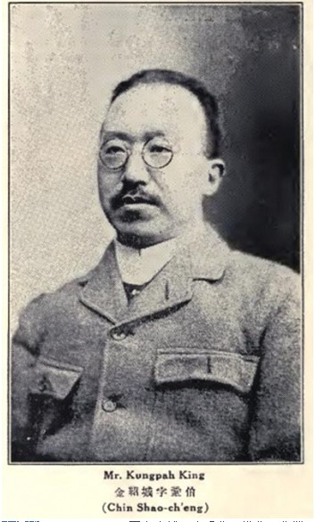 Jin Shaocheng (1878-1926)